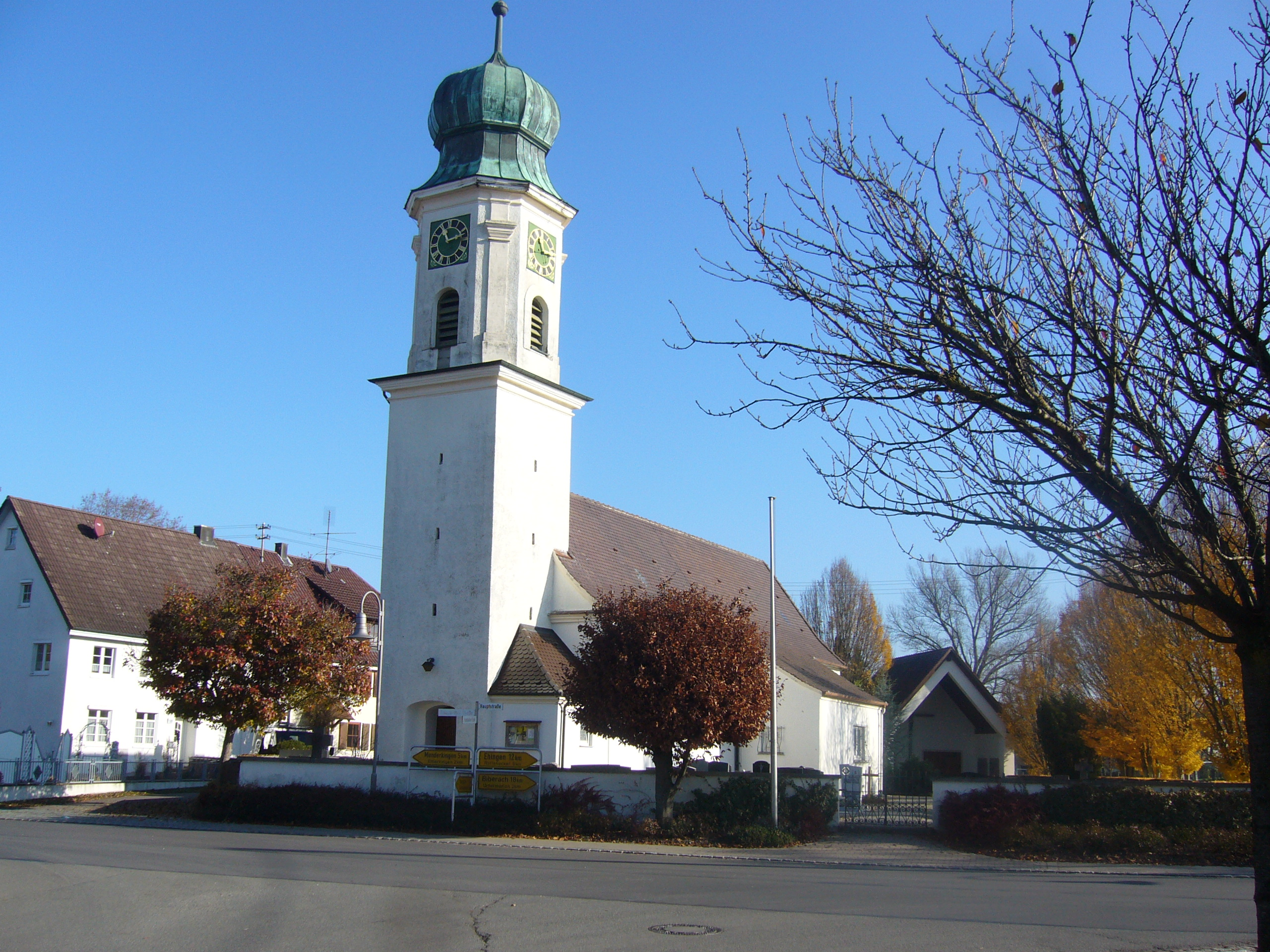 Catholic Church in Oberstadion-Hundersingen, Germany